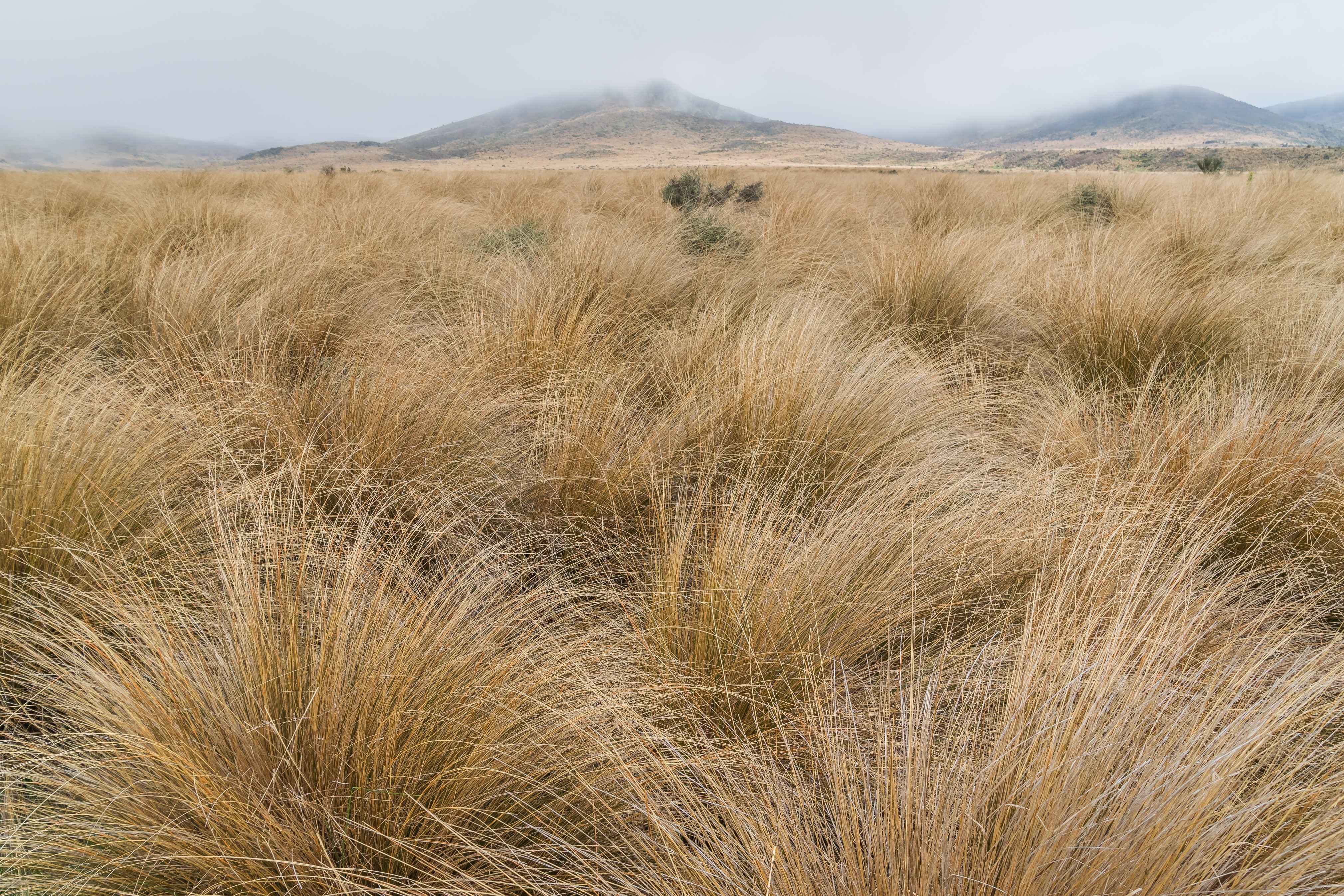 Chionochloa rubra in Burwood Bush Scientific Reserve in Southland region, South Island of New Zealand